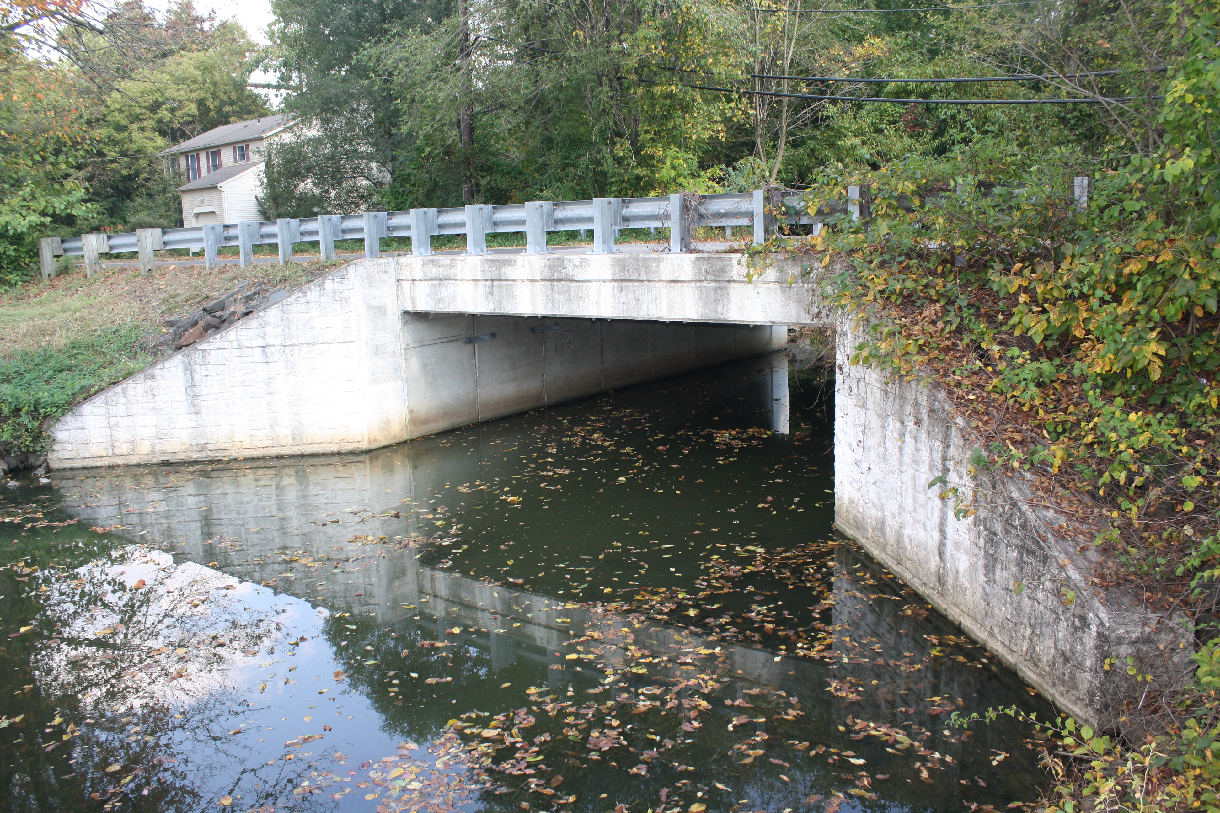 Bridge in Yardley Borough on Reading Avenue over VanHorn Creek, Scammells Corner, Pennsylvania. Object location40° 14′ 03.12″ N, 74° 50′ 02.04″ W